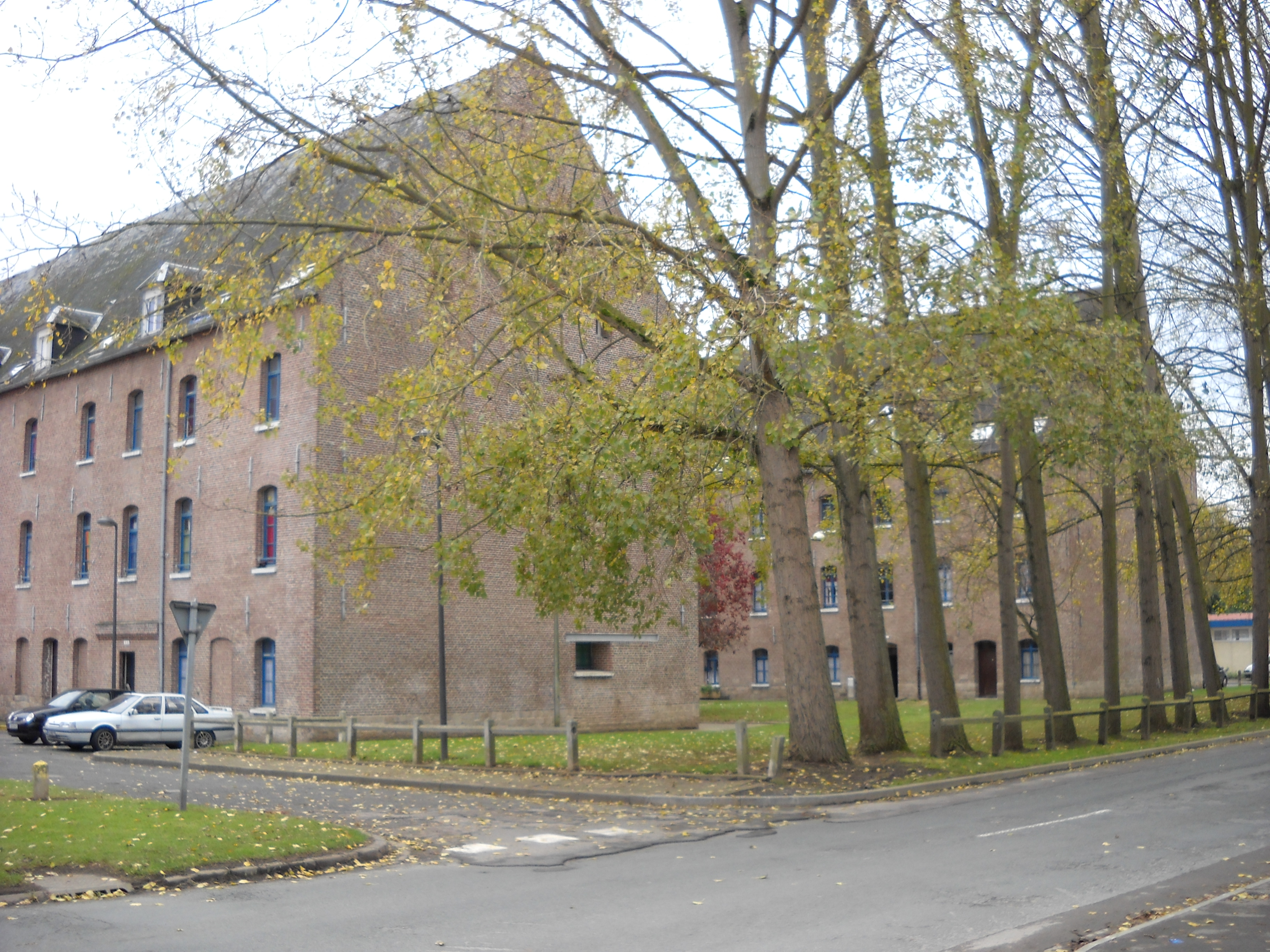 The ancient Crémilles barracks, in Aire-sur-la-Lys, Pas-de-Calais, France.